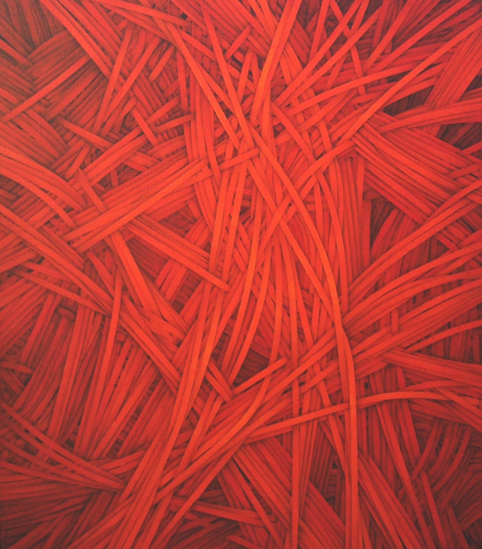 Segni di Fuoco by Luciano De Liberato.